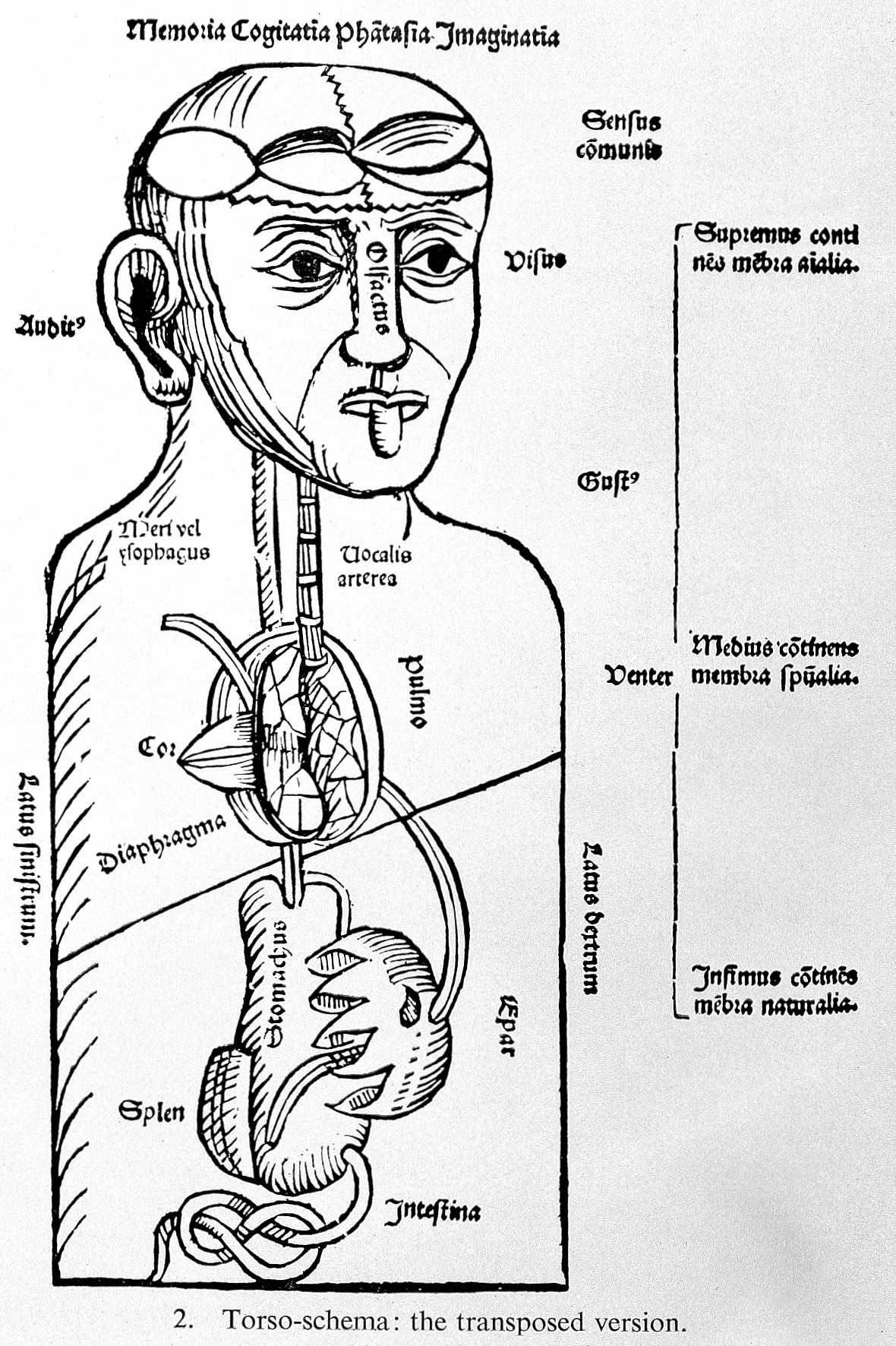 Human torso. Wellcome Images Keywords: Anatomy; Johann Peyligk